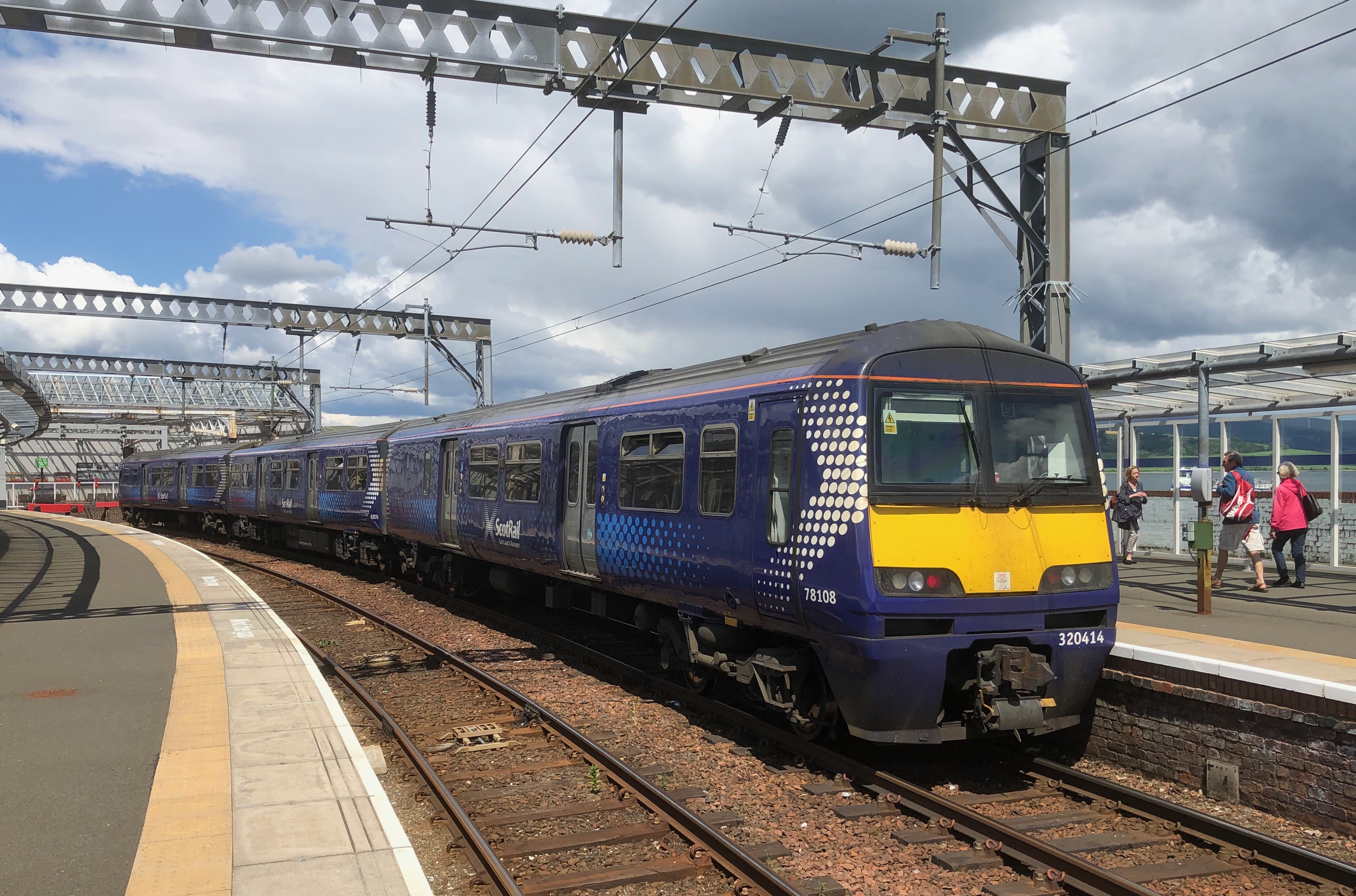 Gourock railway station Platform 1 in June 2019, with Class 320 train. MV Ali Cat ferry in the background, leaving the pier.